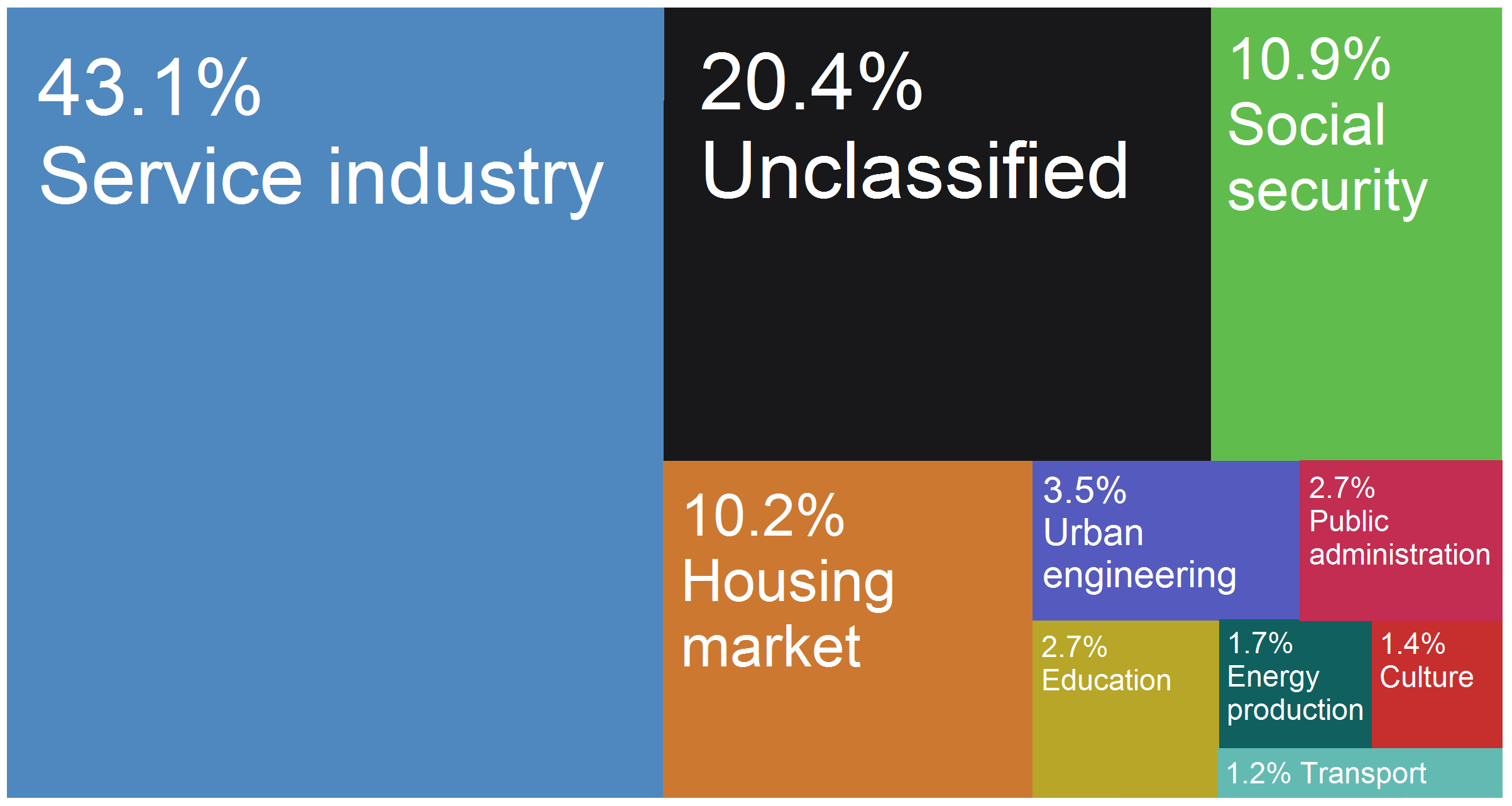 Diagram illustrating the city's budget sources.